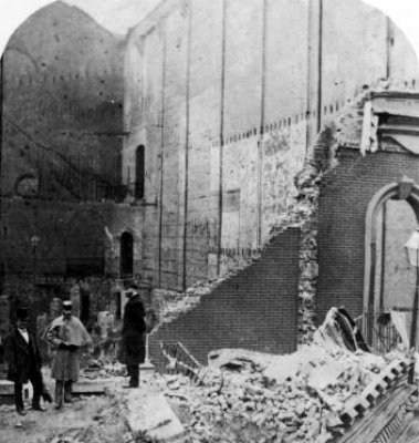 Ruins of the Brooklyn Theatre, as viewed from Johnson Street, shortly after the fire. Markings of the gallery stairway can be seen on the far wall, angling down from left to right. Many patrons became trapped on these stairs and died of smoke inhalation